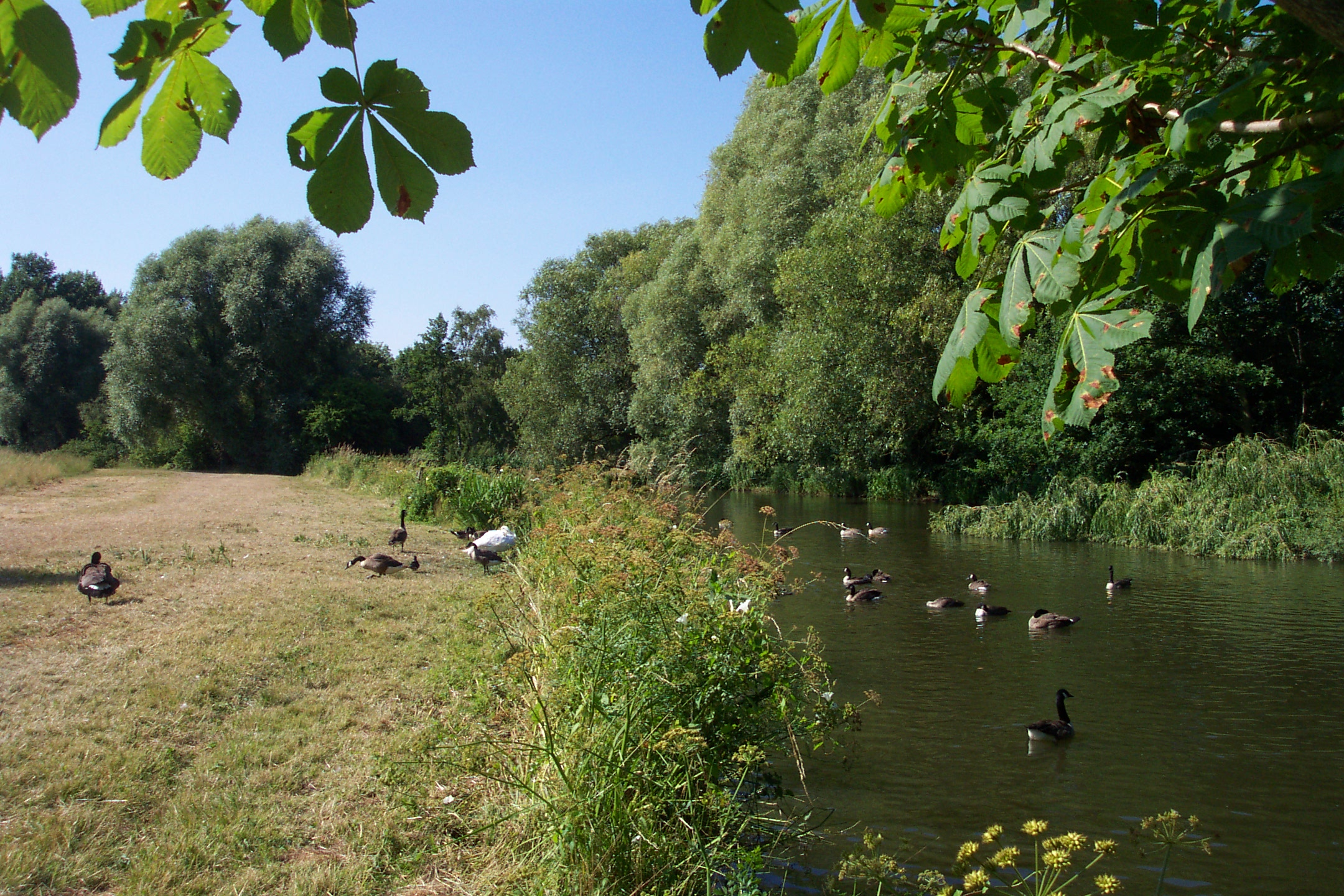 A quiet corner of the Whiteknights Park campus of the University of Reading, in the town of Reading in the English county of Berkshire. This is the upper of the three lakes which divide the campus. For more information see the Wikipedia article Whiteknights Park.